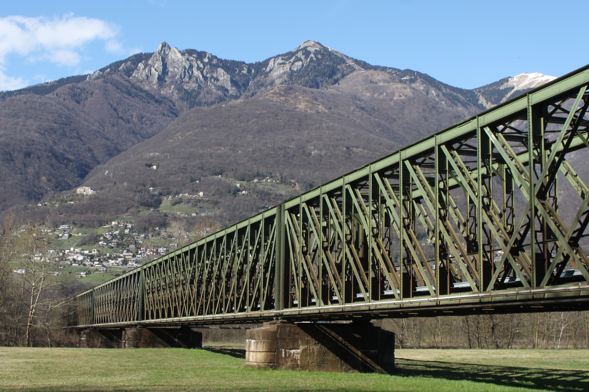 "Ticino" bridge between the stations of Cadenazzo and Riazzino-Cugnasco on the Bellinzona—Locarno railway.